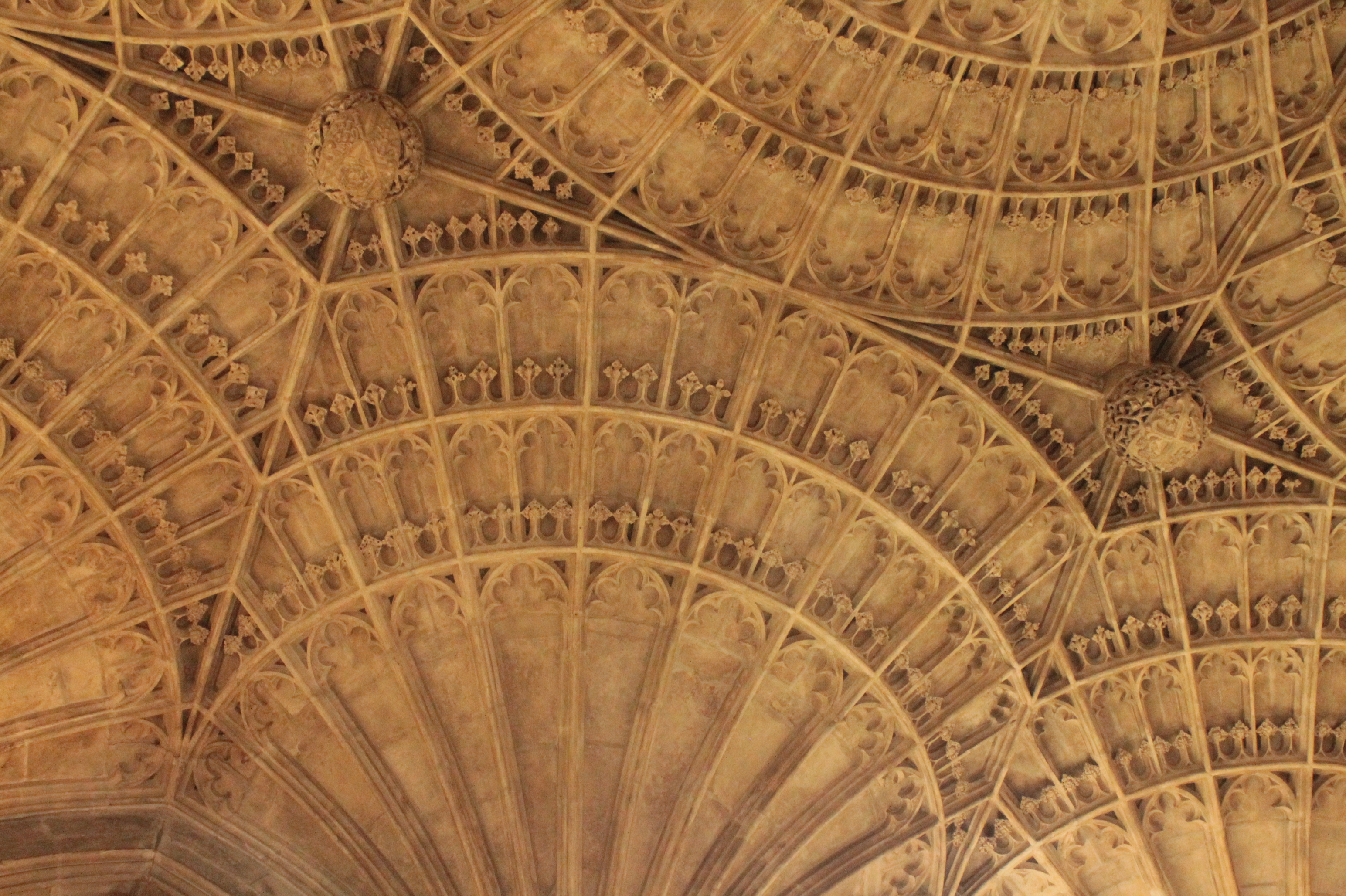 Fan vaulting (detail) in Peterborough Cathedral